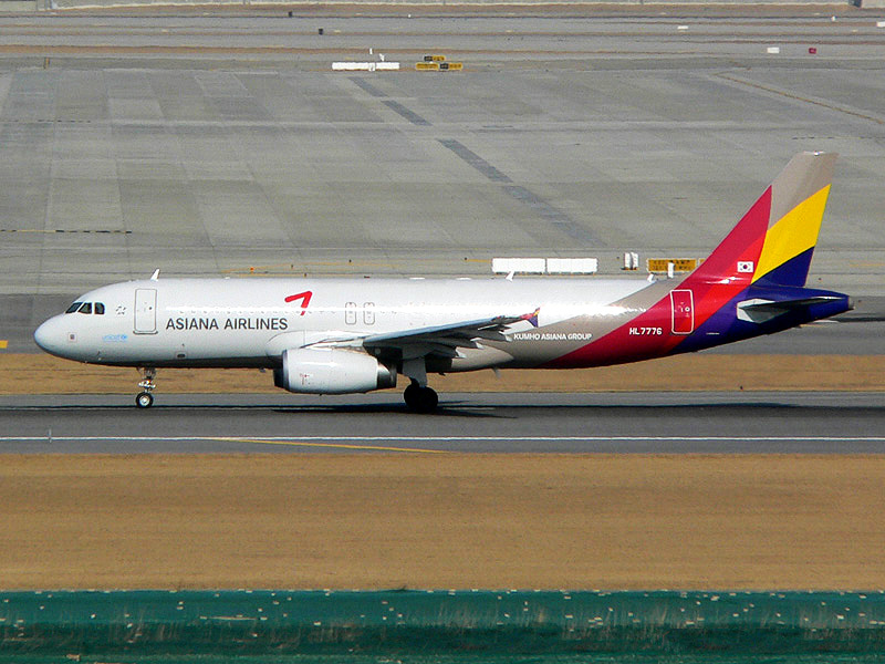 Asiana Airlines(OZ/AAR) Airbus A320-200